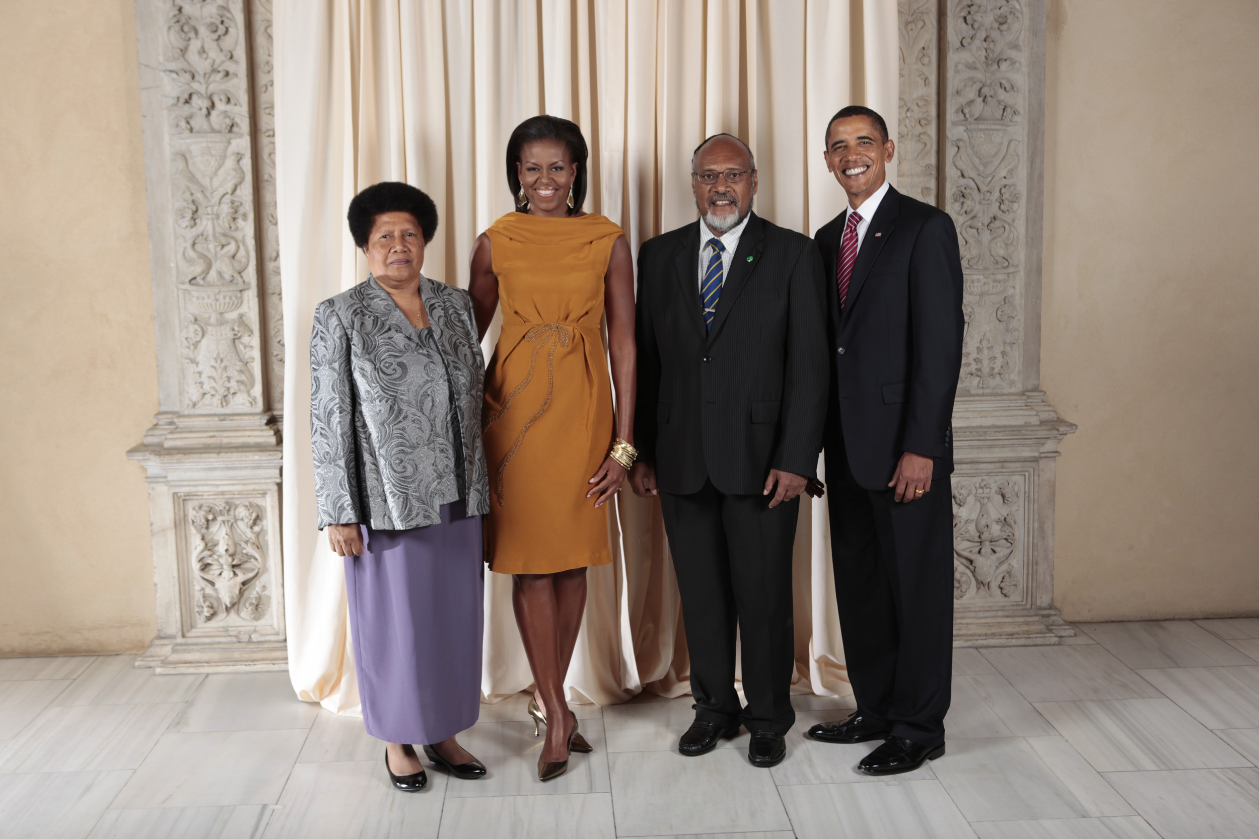 President Barack Obama and First Lady Michelle Obama pose for a photo during a reception at the Metropolitan Museum in New York with Edward Nipaki Natapei, Prime Minister of Vanuatu, and his wife, Mrs. Leipaki Natapei.